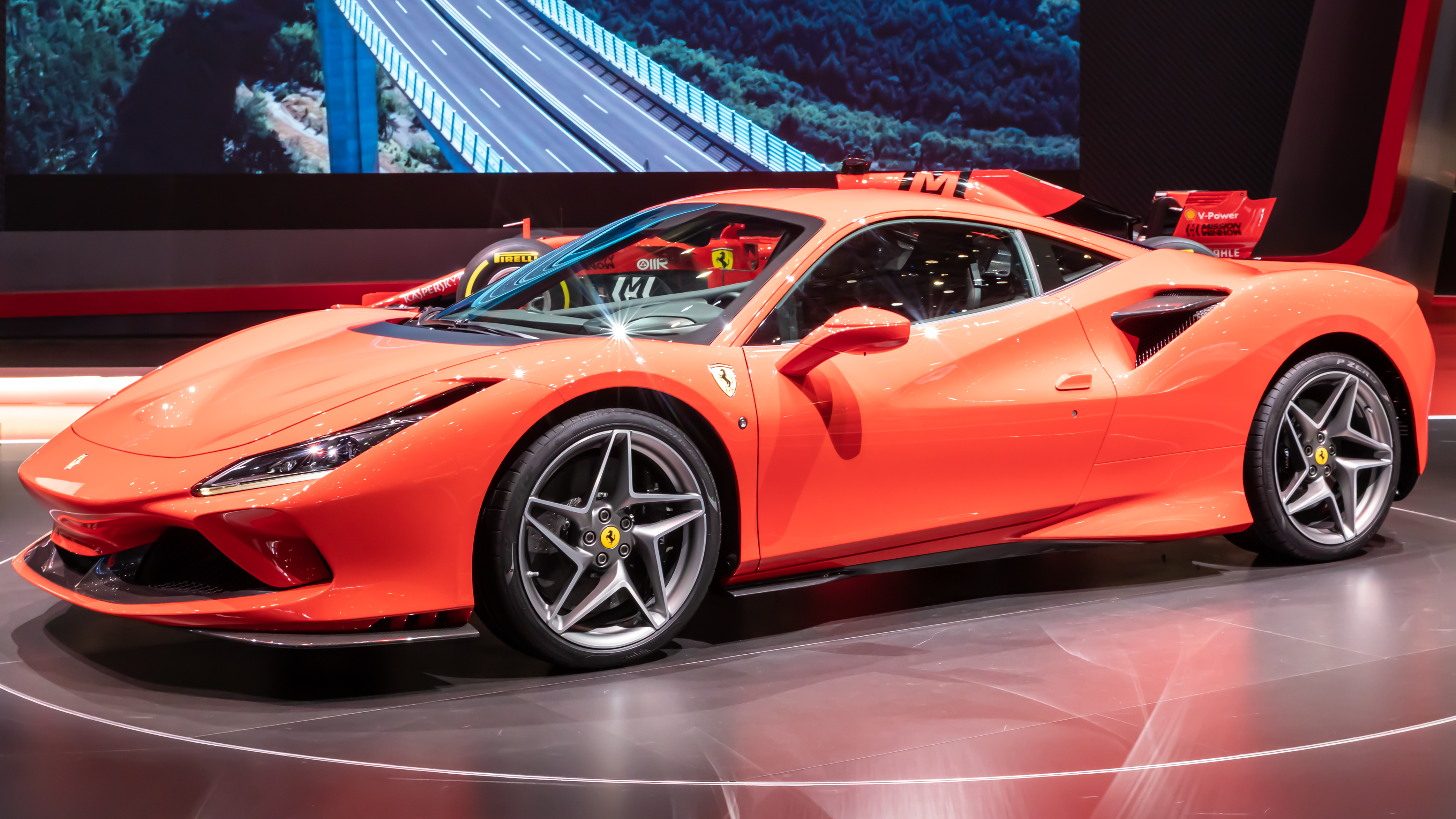 Ferrari F8 Tributo at Geneva International Motor Show 2019, Le Grand-Saconnex